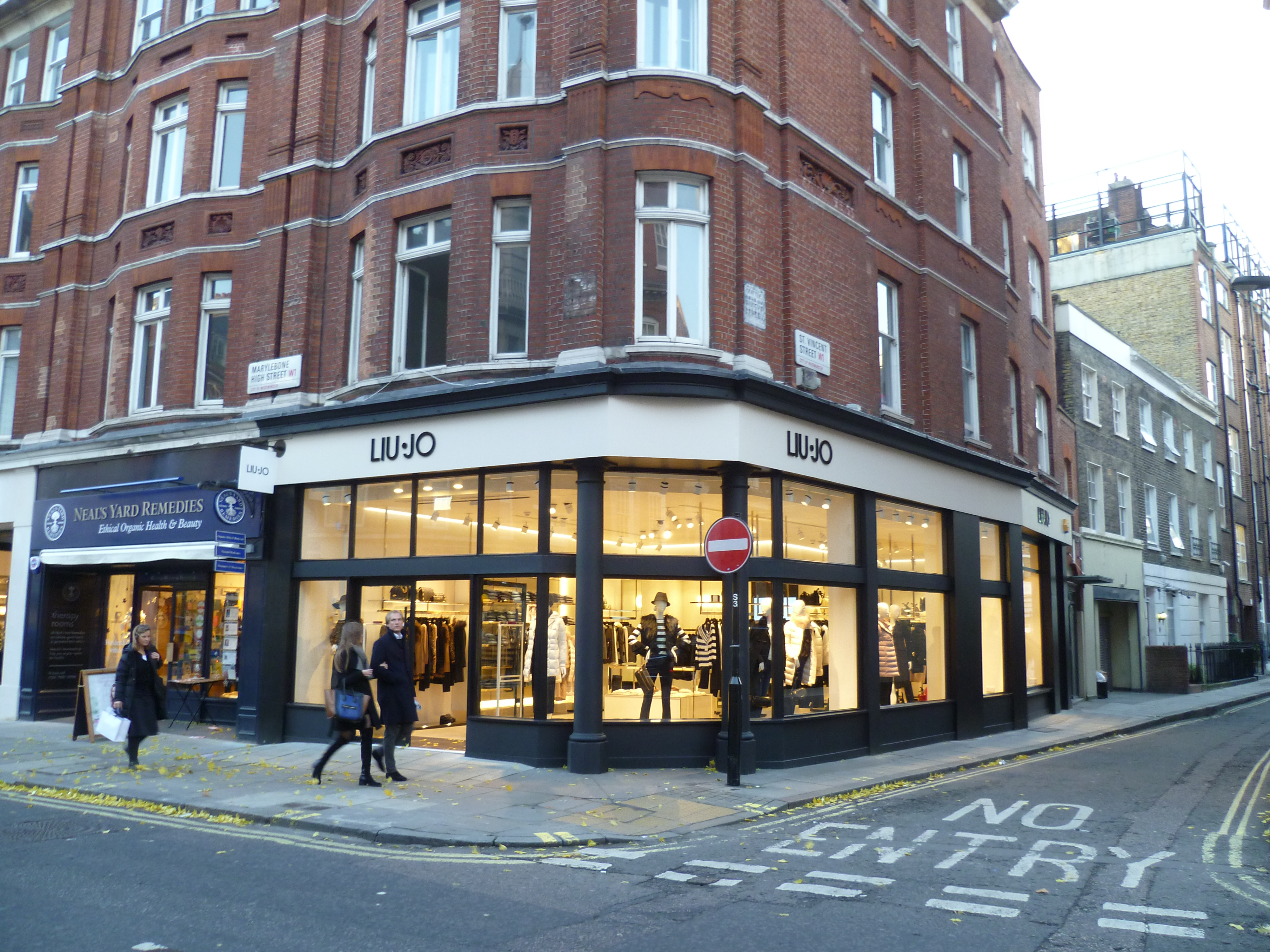 London